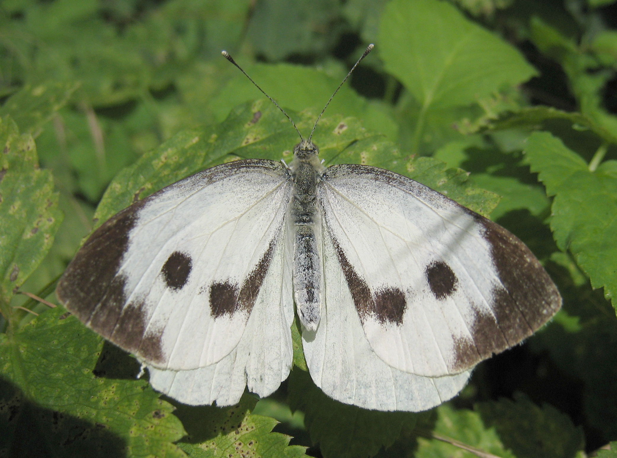 A Large White (Pieris brassicae) with spread wings